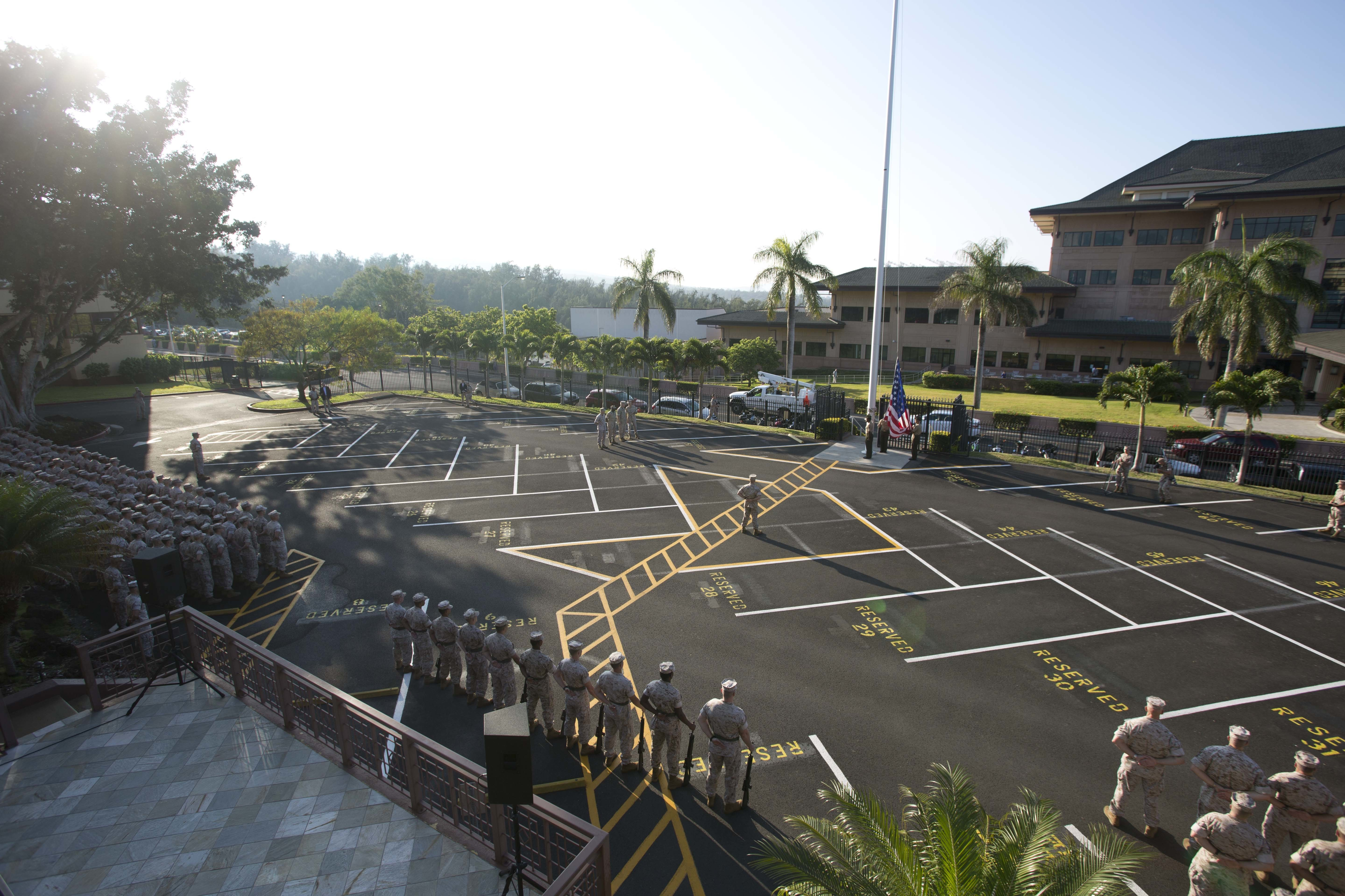 Commandant of the Marine Corps Gen. Joseph F. Dunford Jr. and Sergeant Major of the Marine Corps Sgt. Maj. Ronald L. Green visit with the Marines and sailors of U.S. Marine Corps Forces, Pacific at Camp H.M. Smith, Hawaii, March 18, 2015. Their visit to MARFORPAC is one of many stops on a tour around the Pacific Region. (U.S. Marine Corps photo by Lance Cpl. Miguel A. Rosales/Released)